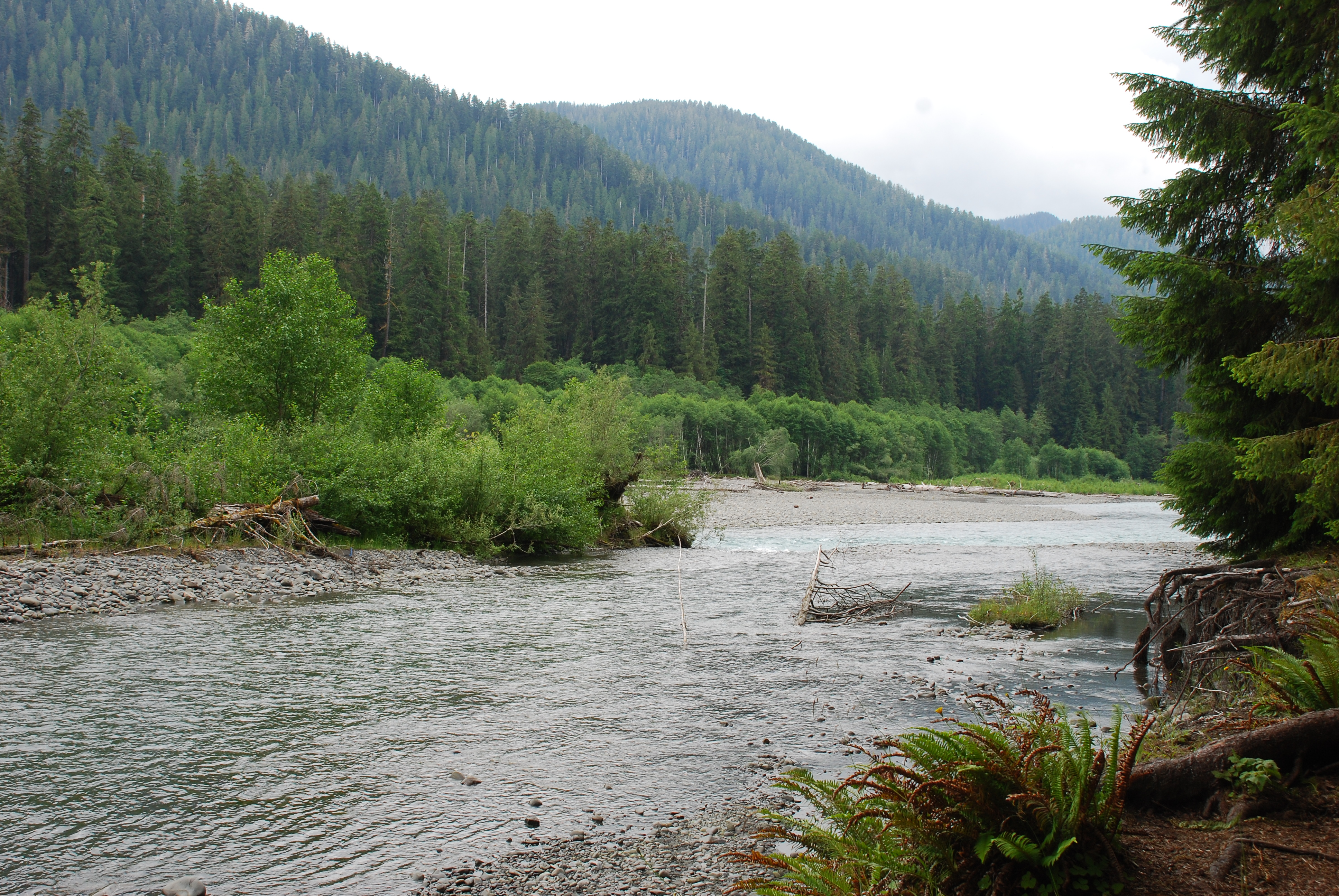 Hoh River in Olympic National Park, Washington